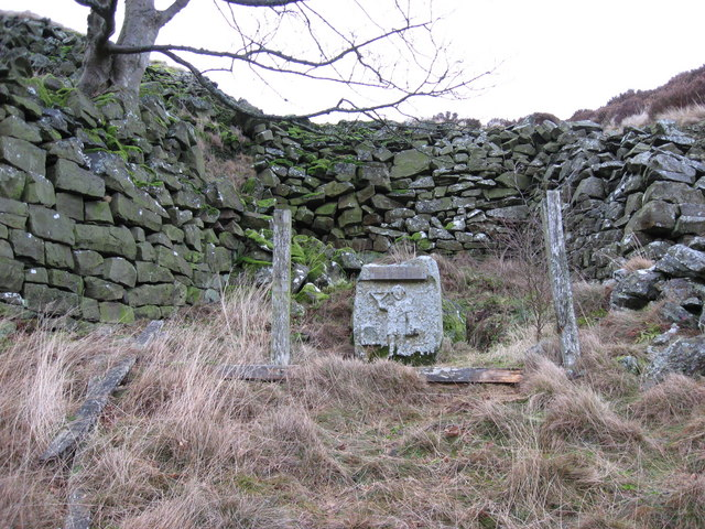 Robin of Risingham Robin (or Rob) of Risingham was a stone block on which was carved the Romano-British god Sylvanus Coccidius. Unfortunately, in the eighteenth Century, the local landowner became so annoyed at the number of people visiting the carving that he blew it up to make gateposts. The legs of the original carving are all that remain. In 1983, the Redesdale Society erected this half-size replica in front of the remains of the original stone carving. For more information